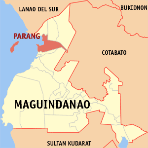 Map of the Maguindanao showing the location of Parang